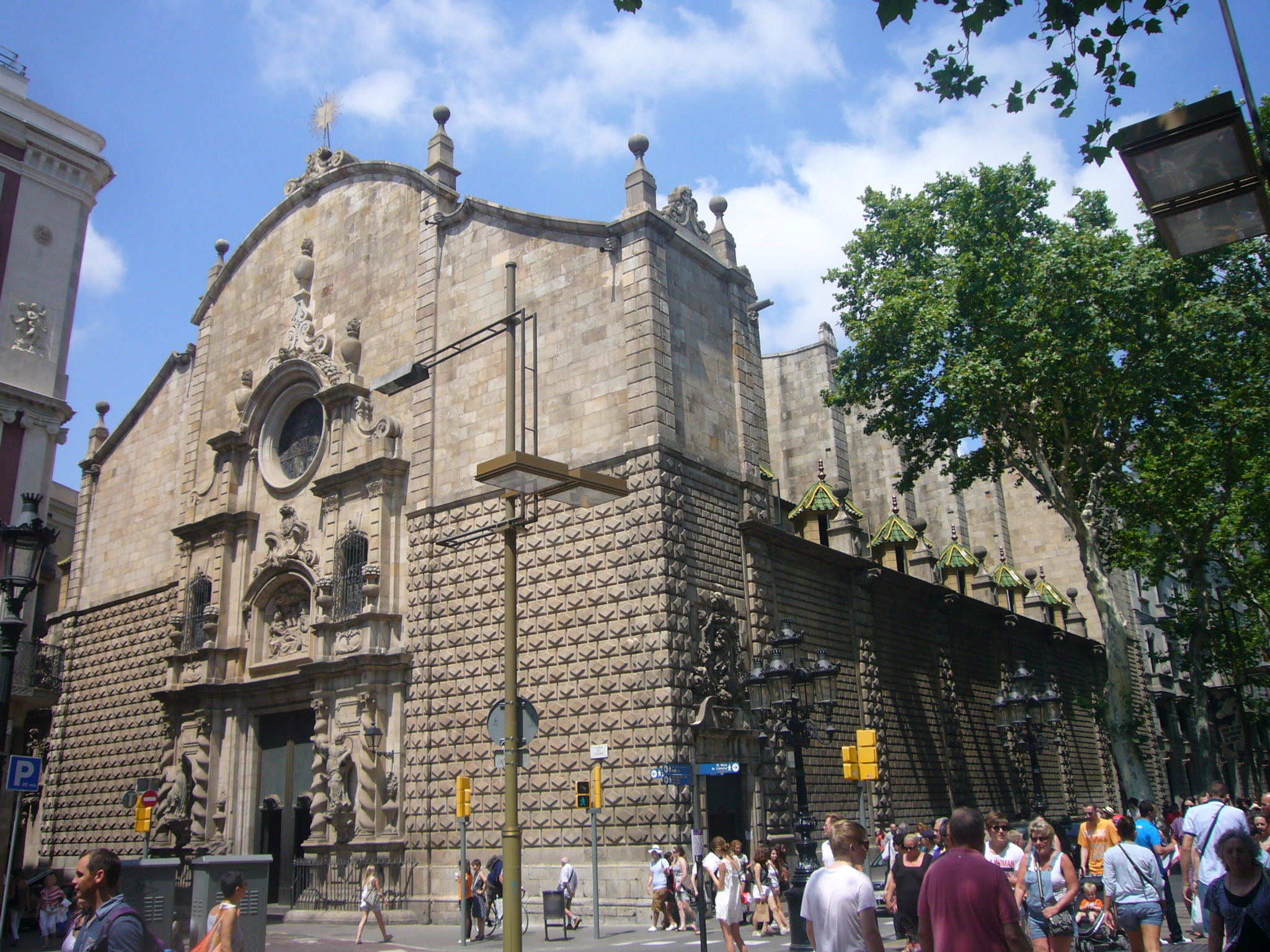 església de Betlem